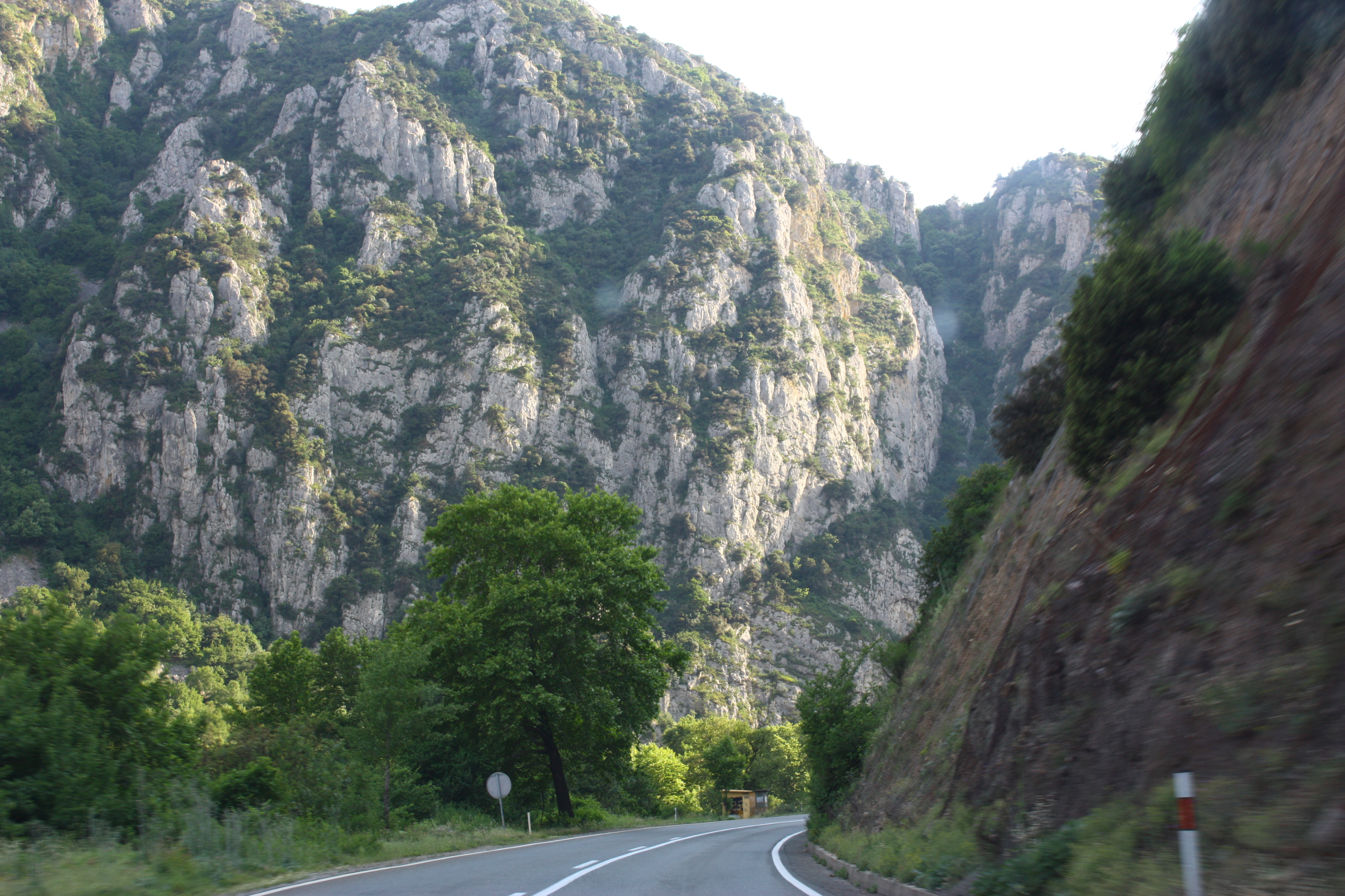 Demir Kapija Canyon, Macedonia